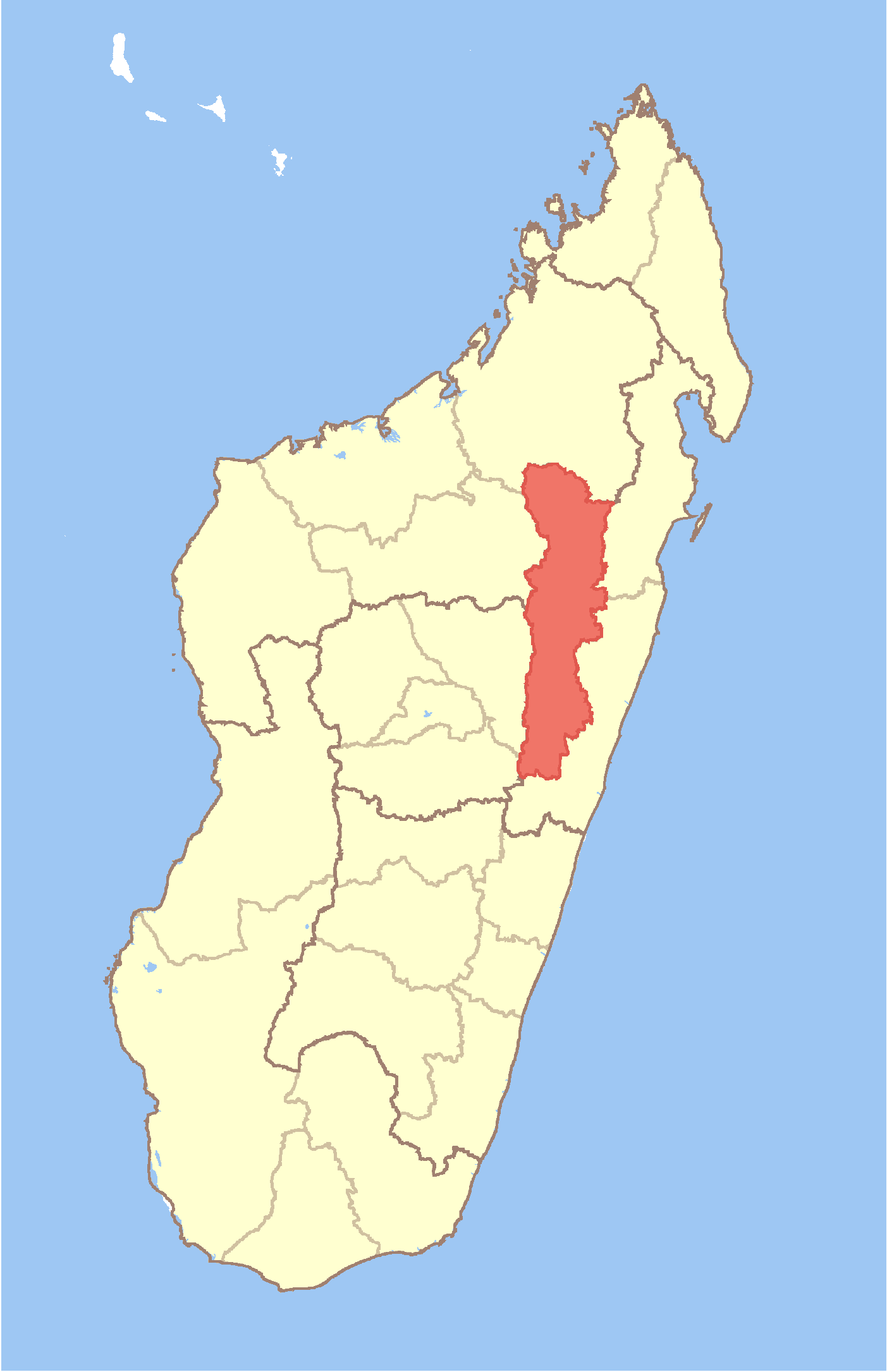 Map of Madagascar with Alaotra-Mangoro Region highlighted